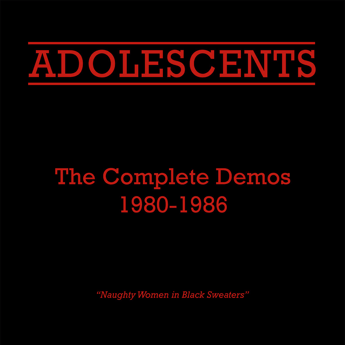 Cover of the Adolescents album The Complete Demos 1980–1986, originally published in 2005 by Frontier Records.